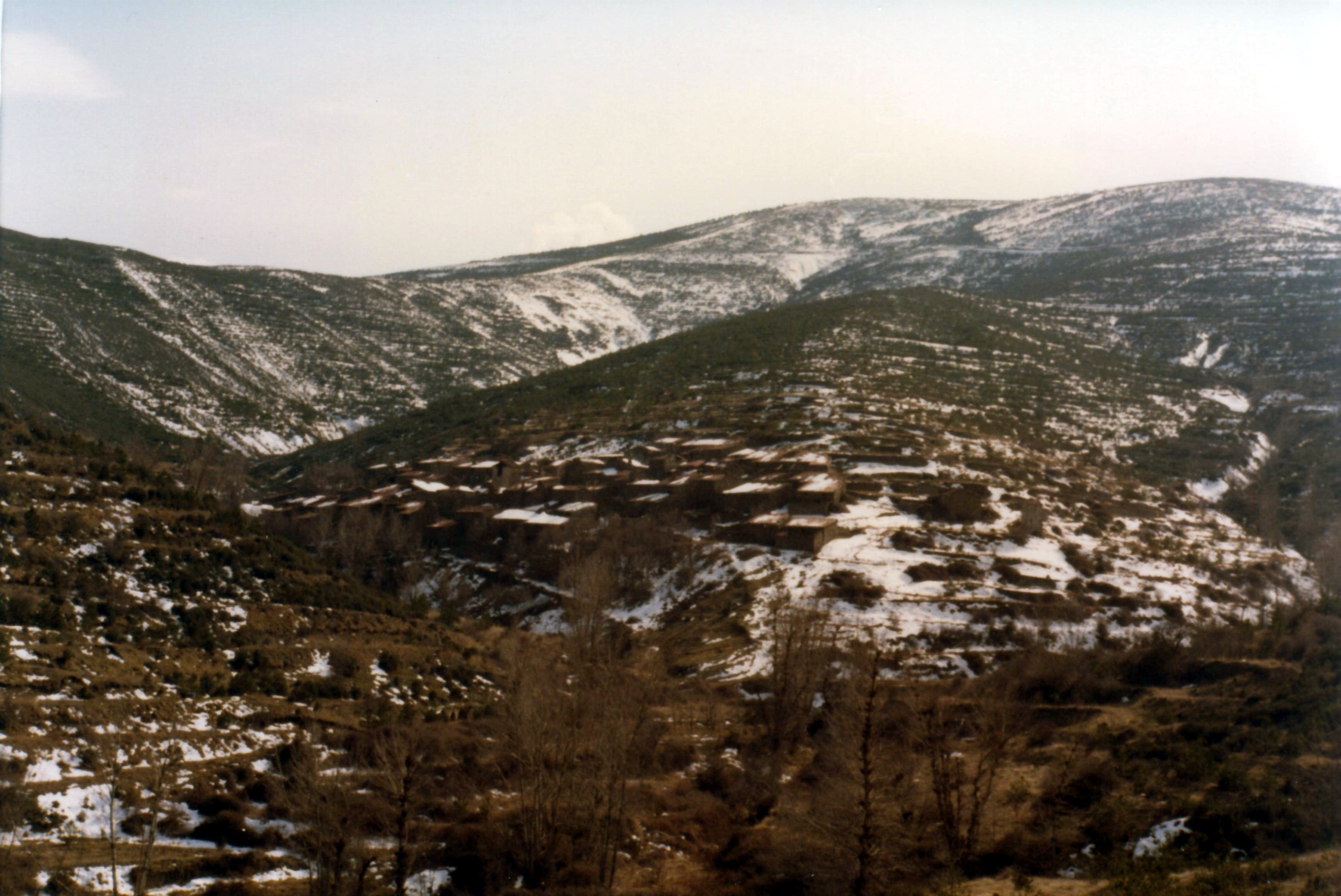 Fuentebella Vista 8